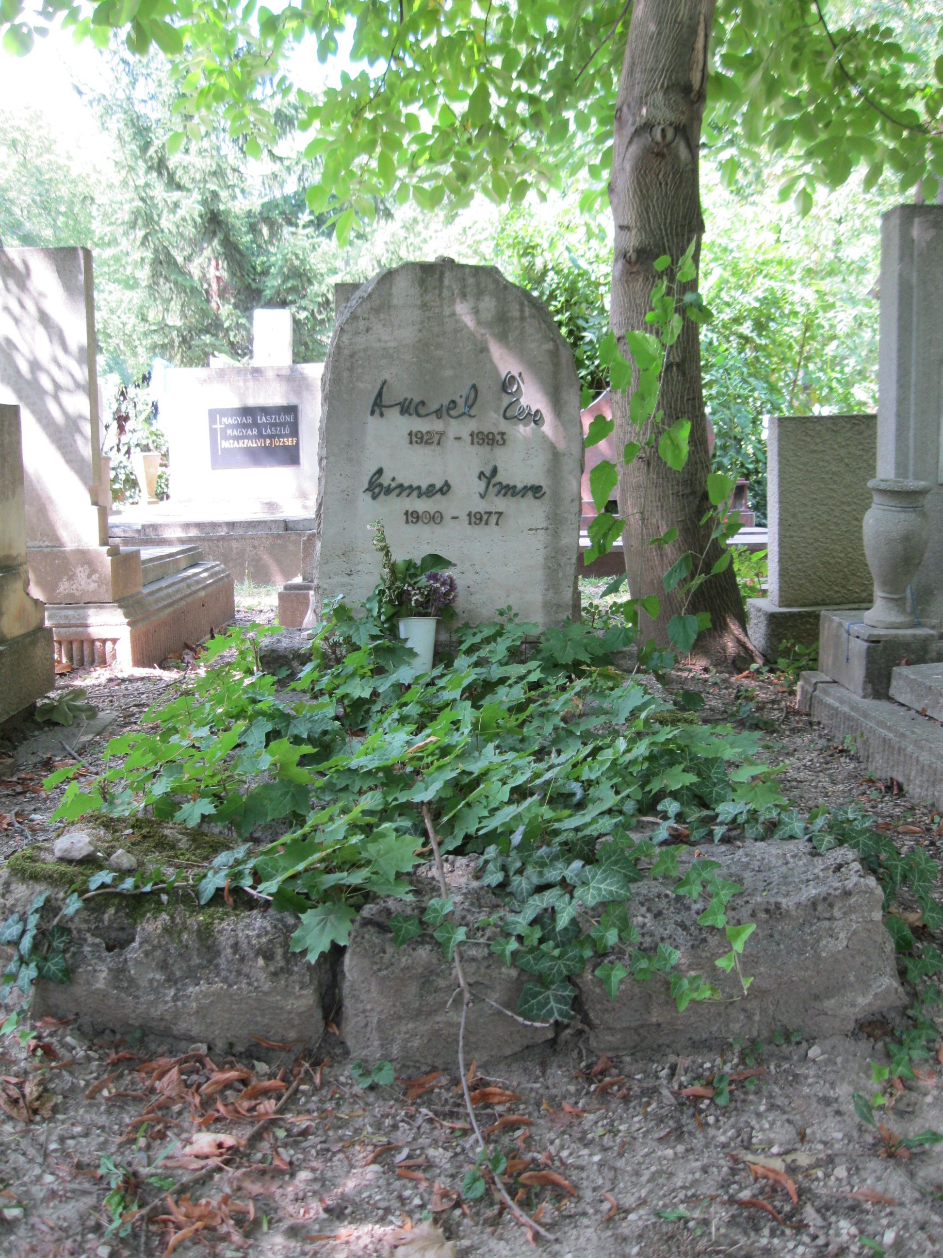 Tomb of Éva Ancsel in Farkasréti Cemetery [6/17-1-82]